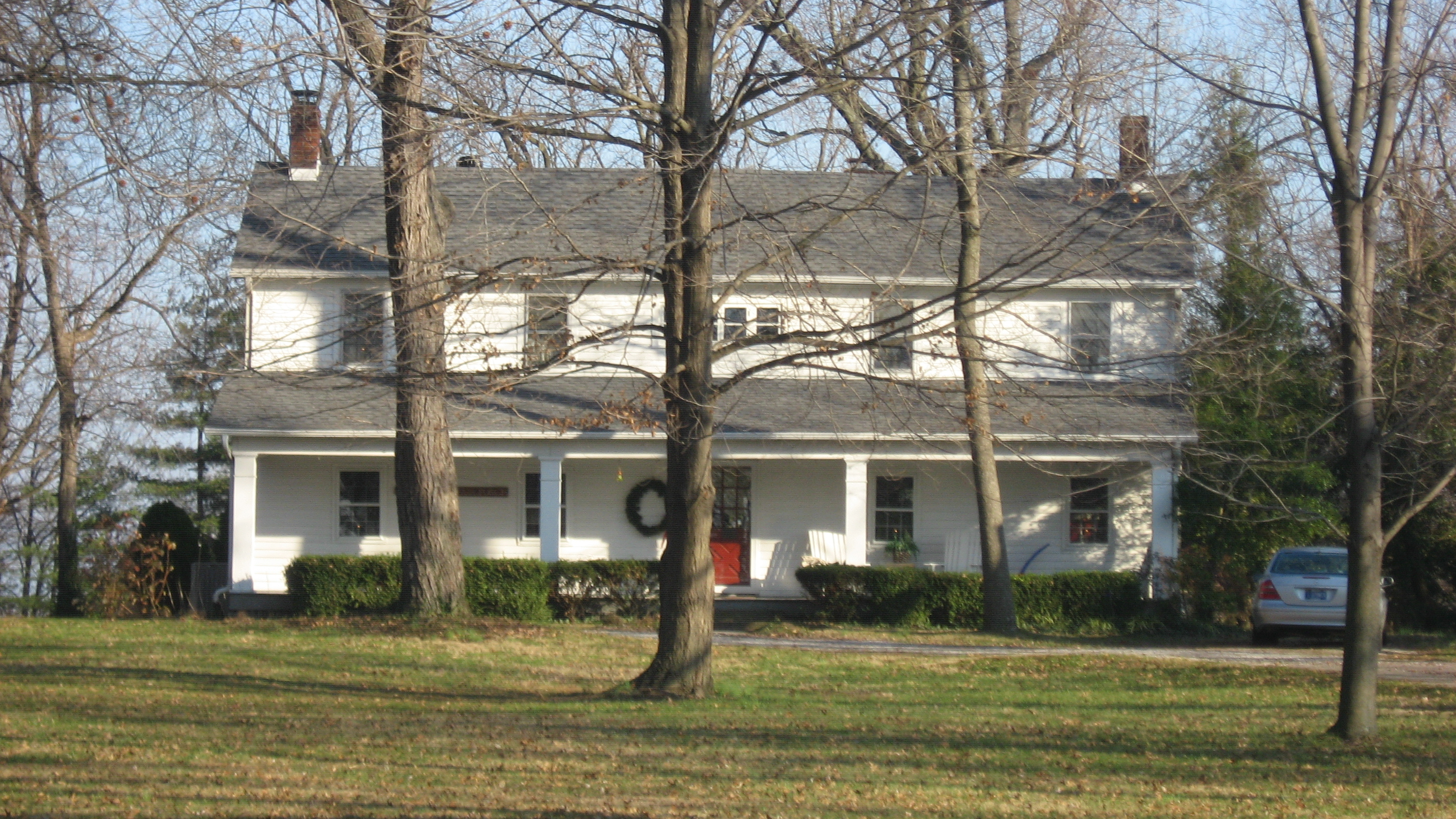 Front of the Hooker-Ensle-Pierce House, located at 6531 Oak Hill Road in Evansville, Indiana, United States. Built in 1839, it is listed on the National Register of Historic Places.